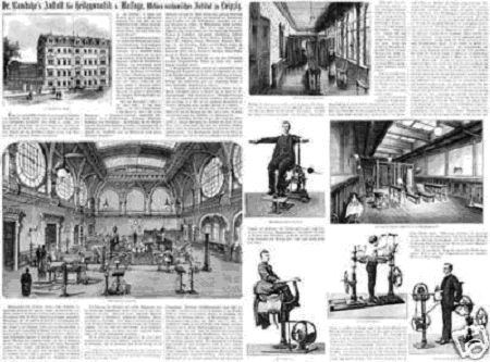 Scan of old Advertisement in german newspaper of 1892